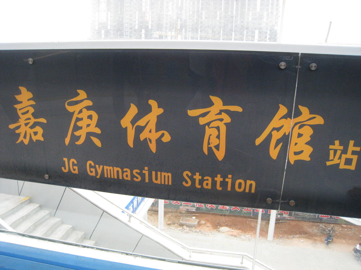 Xiamen BRT - Jia Geng Gymnasium Station